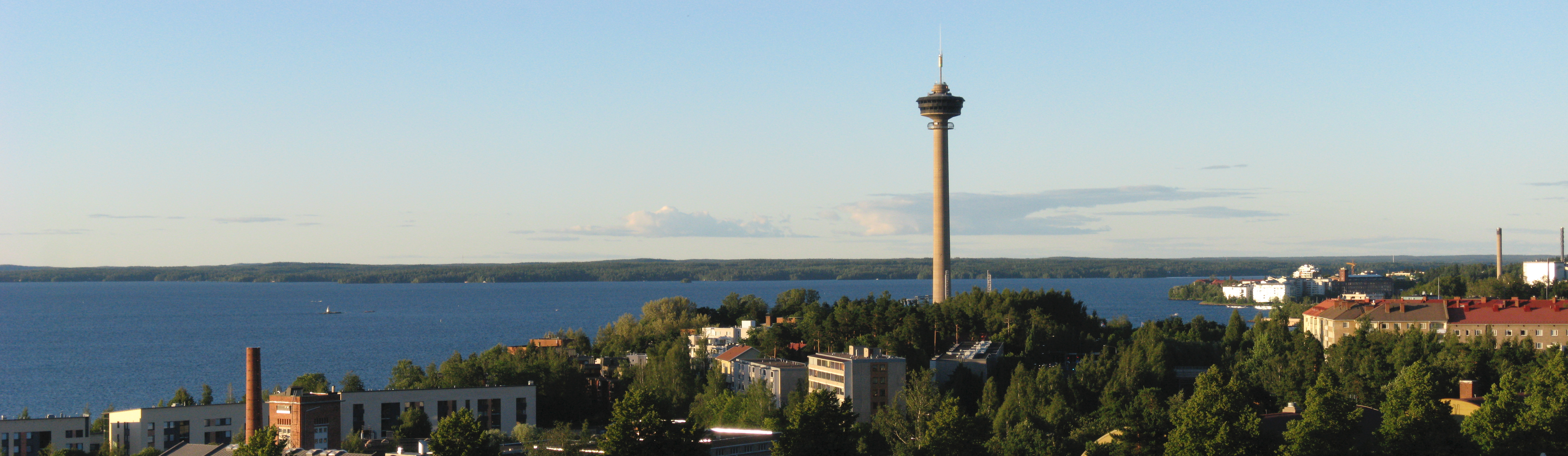 Panorama view over Näsijärvi and Särkänniemi including Näsinneula. Tampere, Finland. Stitched with hugin version 0.7.0 (SVN 3465)